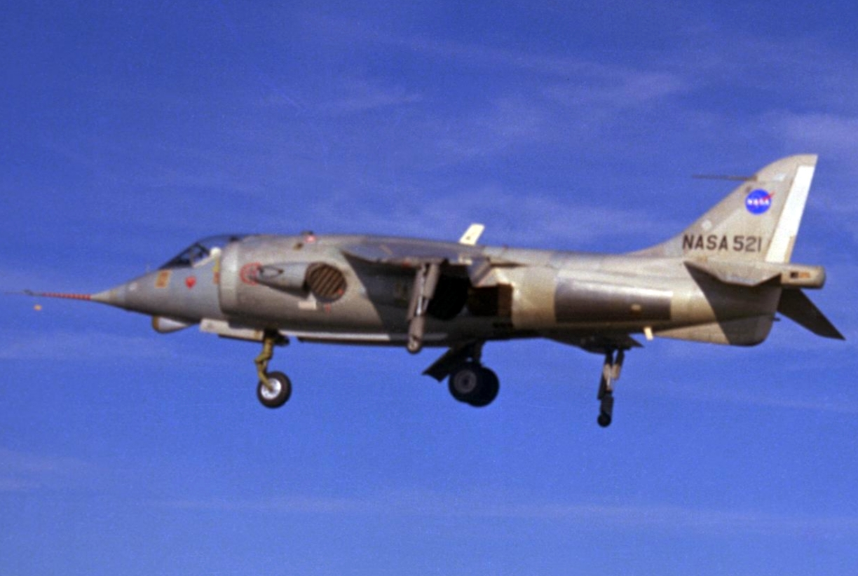 A Hawker Siddeley P.1127 in flight at the NASA Langley Research Center, Virginia (USA). The P.1127 research aircraft was tested extensively at Langley to evaluate V/STOL handling qualities and the use of thrust vectoring as an aid in enhancing aircraft maneuverability.